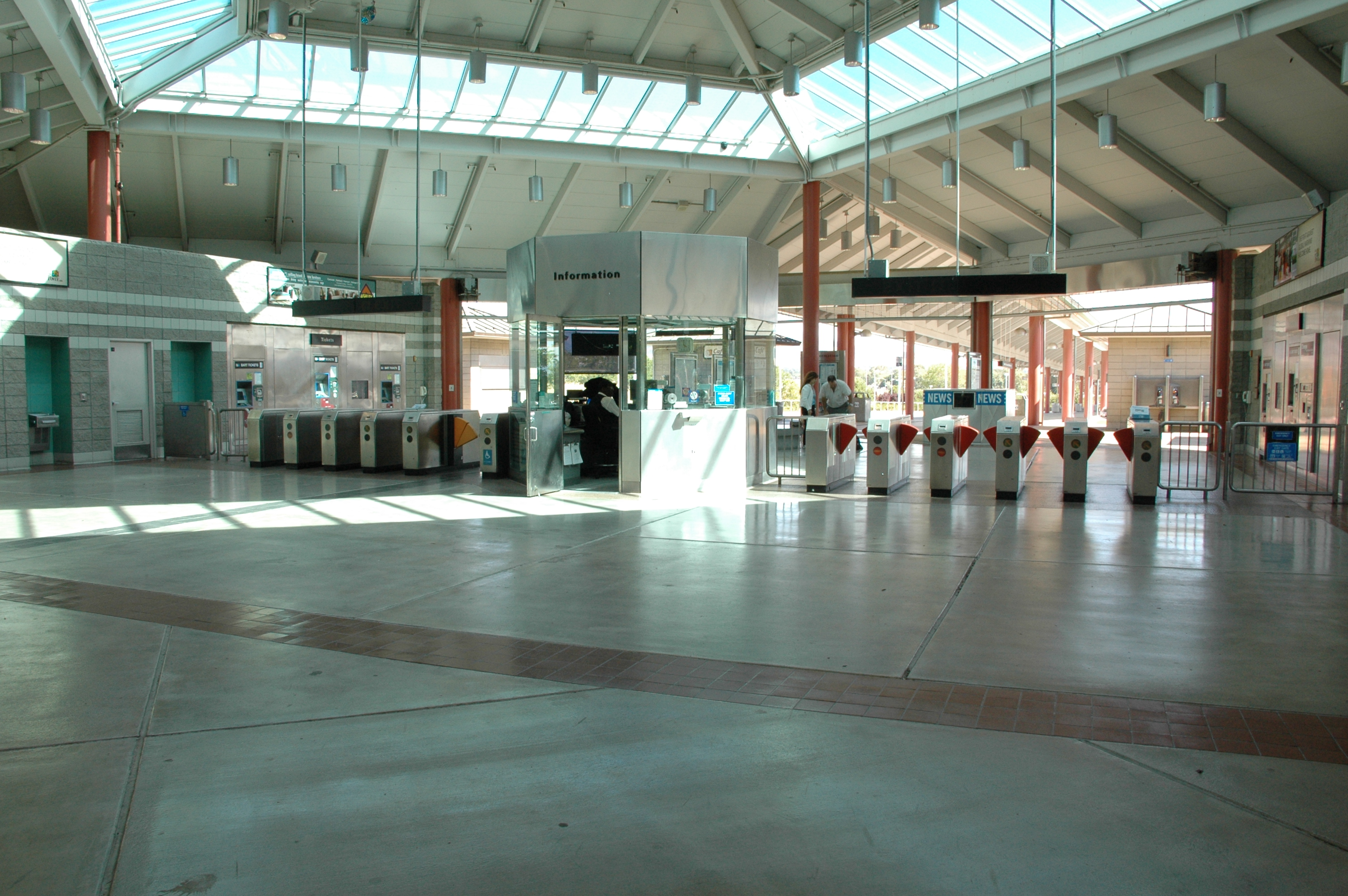 North Concord BART